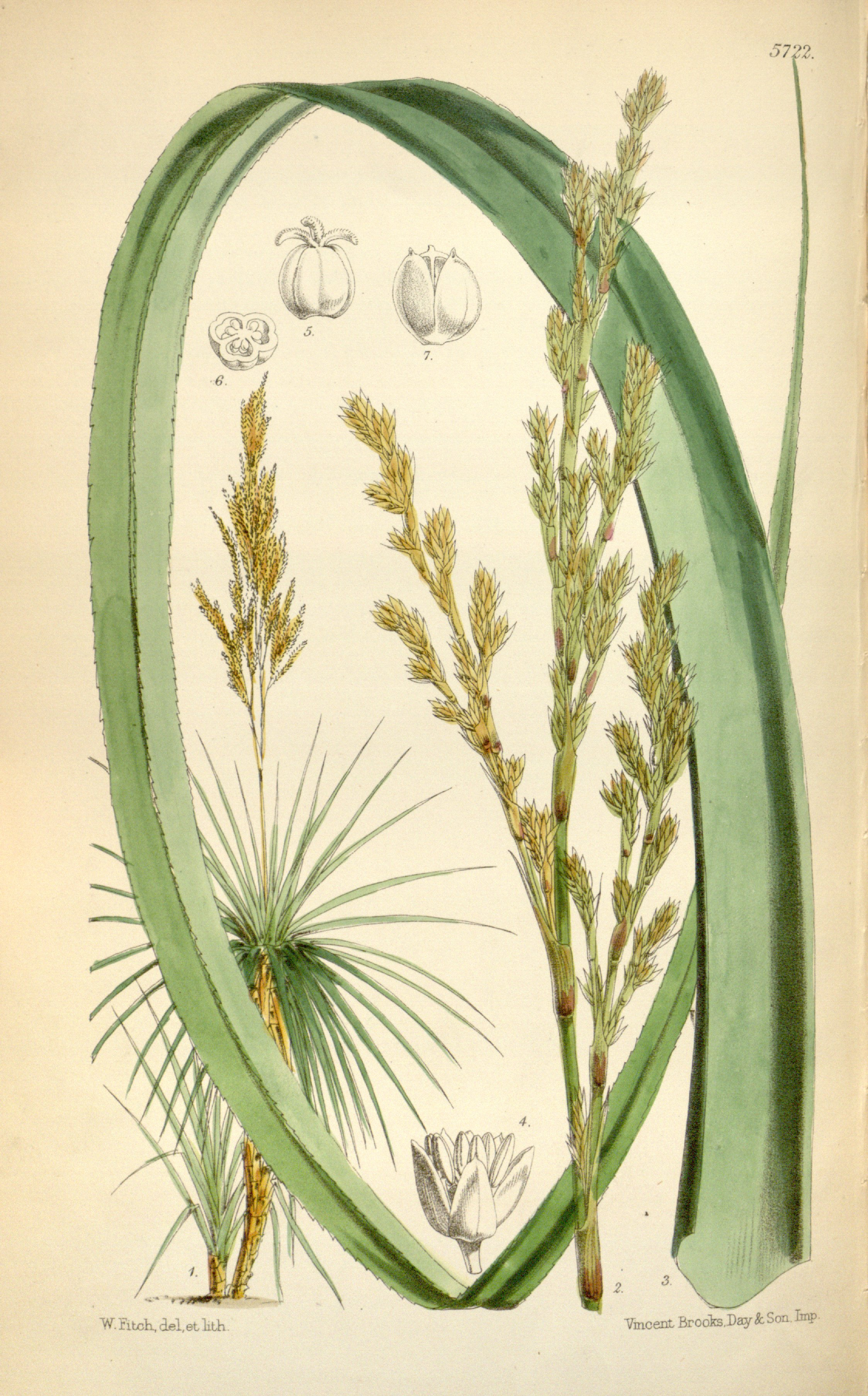 Prionium serratum (L.f.) Drège [as Prionium palmita E. Meyer] Curtis’s Botanical Magazine, vol. 94 [ser. 3, vol. 24]: t. 5722 (1868) [W.H. Fitch]